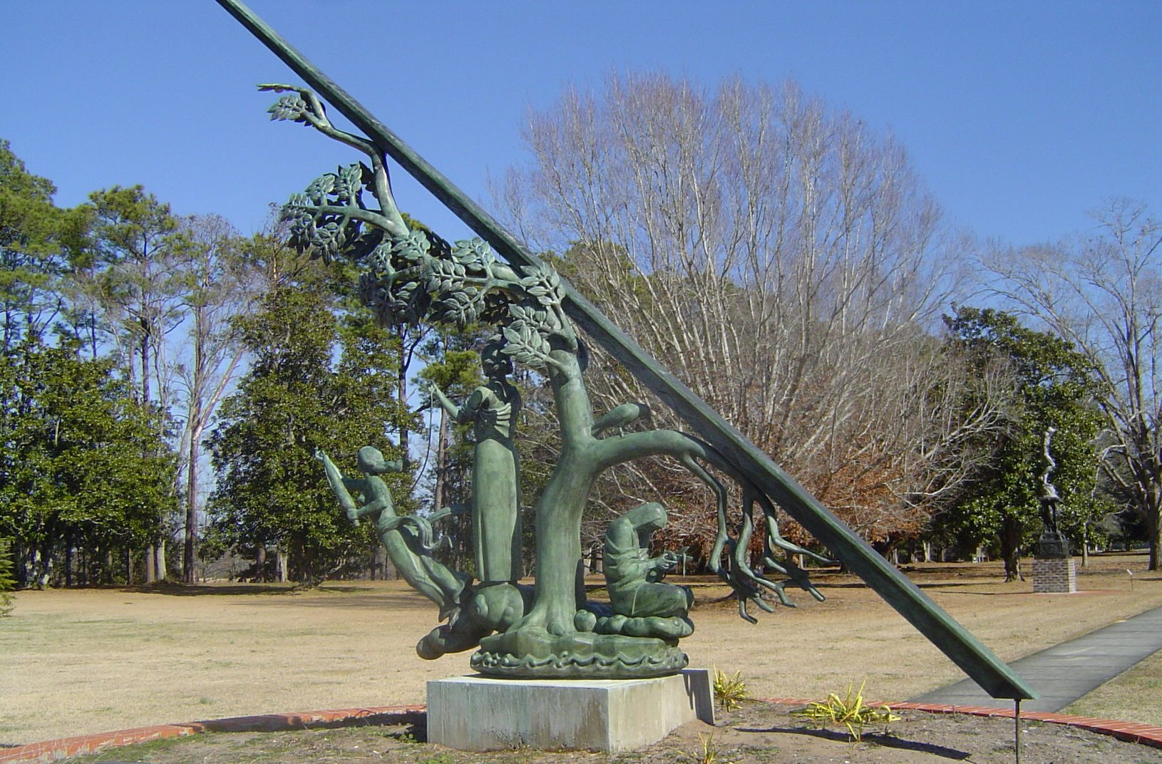 Brookgreen Gardens - sculpture garden: Time and the Fates of Man by Paul Manship. Bronze sculpture from 1939, signed and dated.